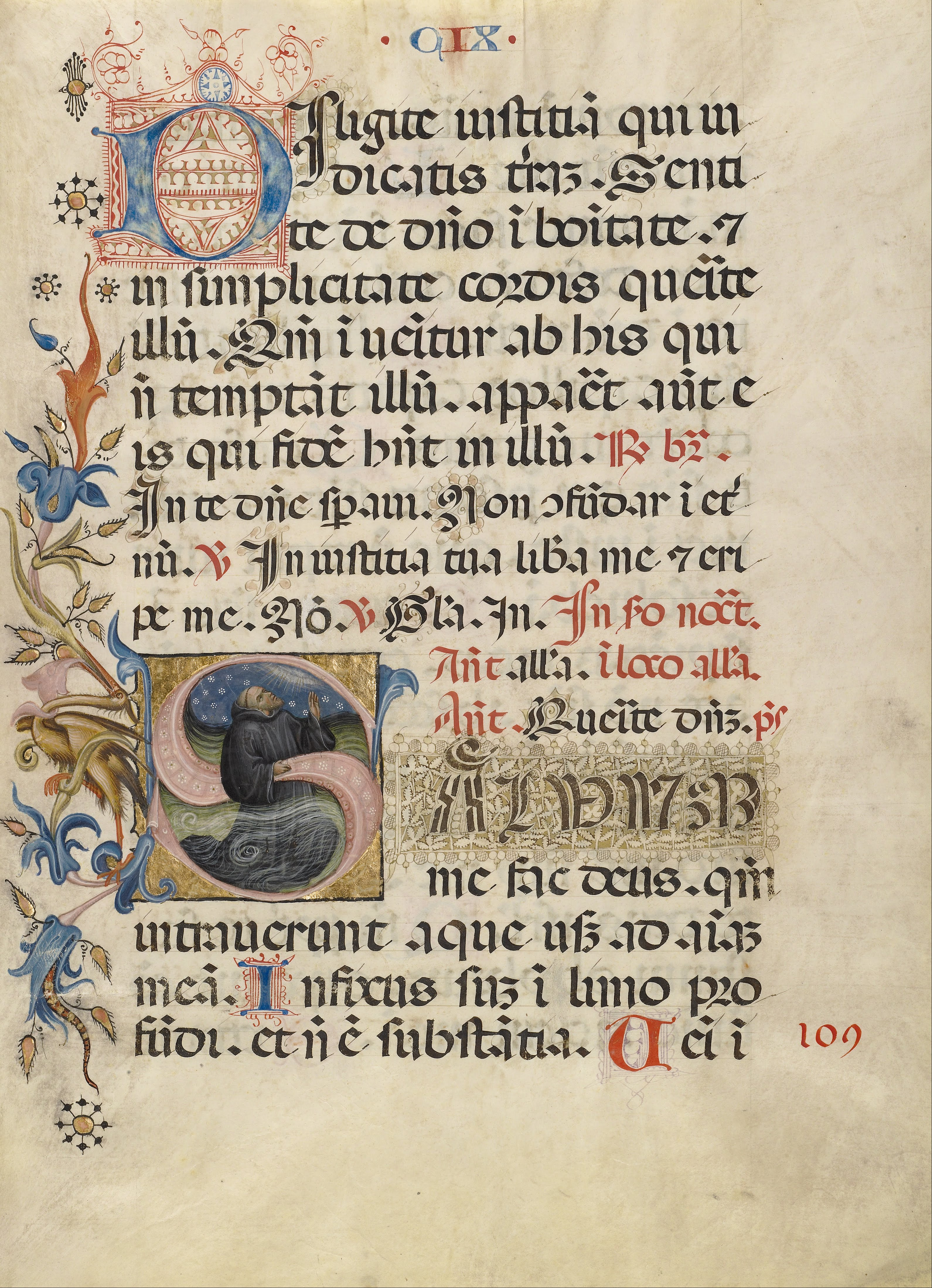 A monk engulfed in water clings to the central curve of an initial S that begins the first verse of Psalm 68, "Save me, O God: for the waters are come in even unto my soul." Once part of a manuscript used in monastic church services, the large scale of this leaf coupled with the size of its script made it practical for reading by a group of monks standing together at a lectern. Instead of the usual figure pictured for this psalm--King David, the purported author of the Psalms--the illuminator substituted a Benedictine monk to appeal to the monastic community who owned this manuscript and who read and sang from it.